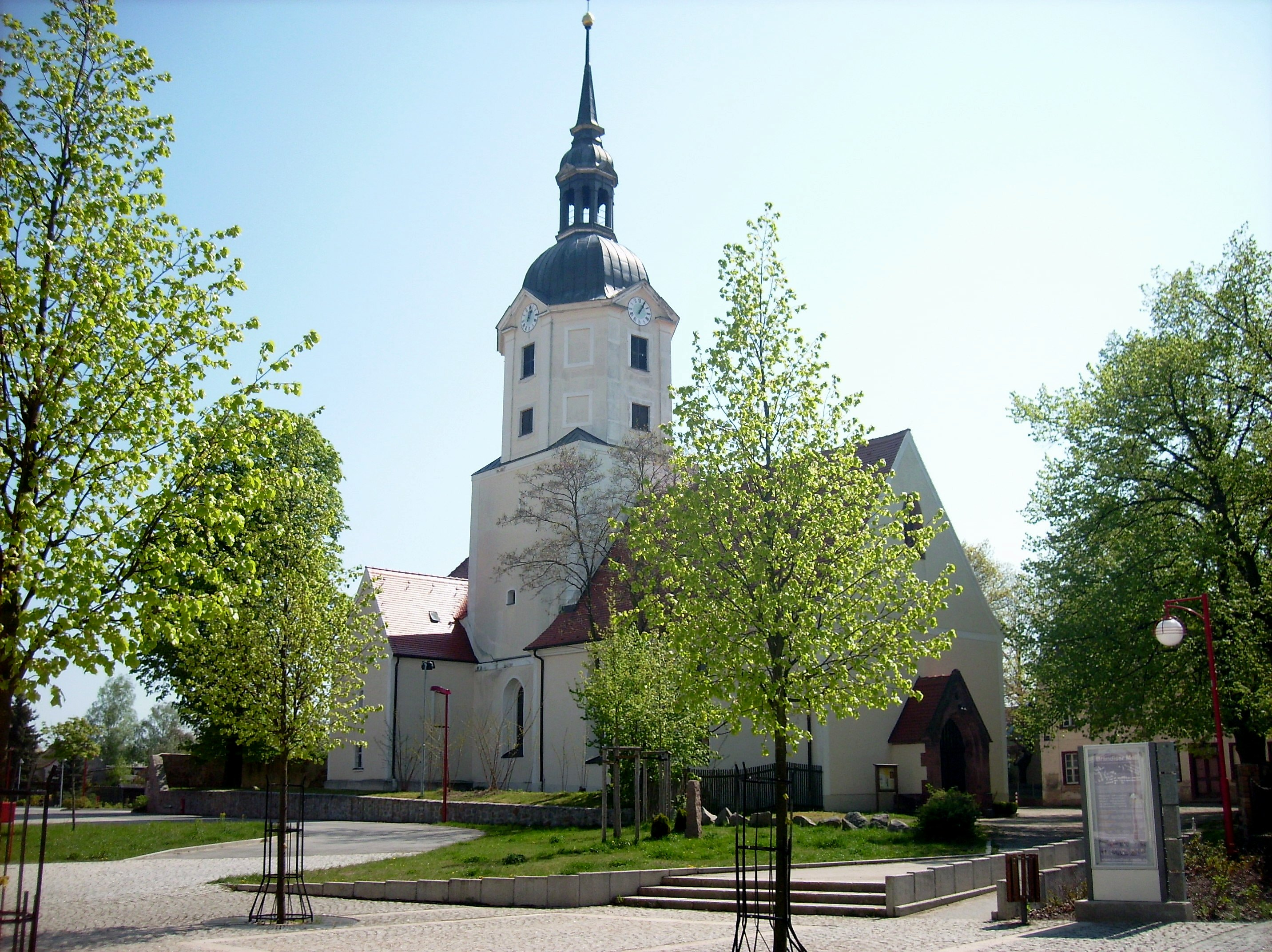 Lutheran church of the town of Brandis (Leipzig district, Saxony)